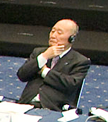 G7 Finance Ministers and Central Bank Governors meeting was held at the Istanbul Congress Center in Istanbul City, Istanbul Province on October 3, 2009.